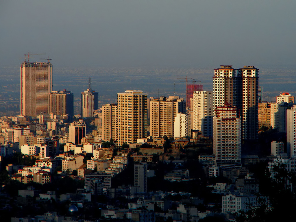 Early morning, minutes (or better to say seconds) after sunrise. The front shadows are because of north-eastern mountains of Tehran.